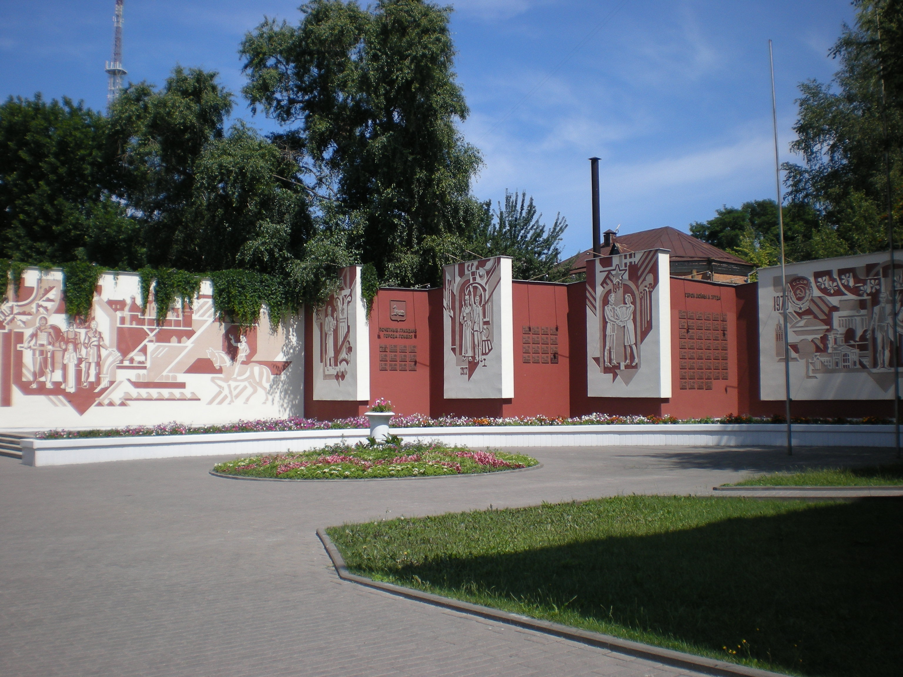 Pictures of Gomel history